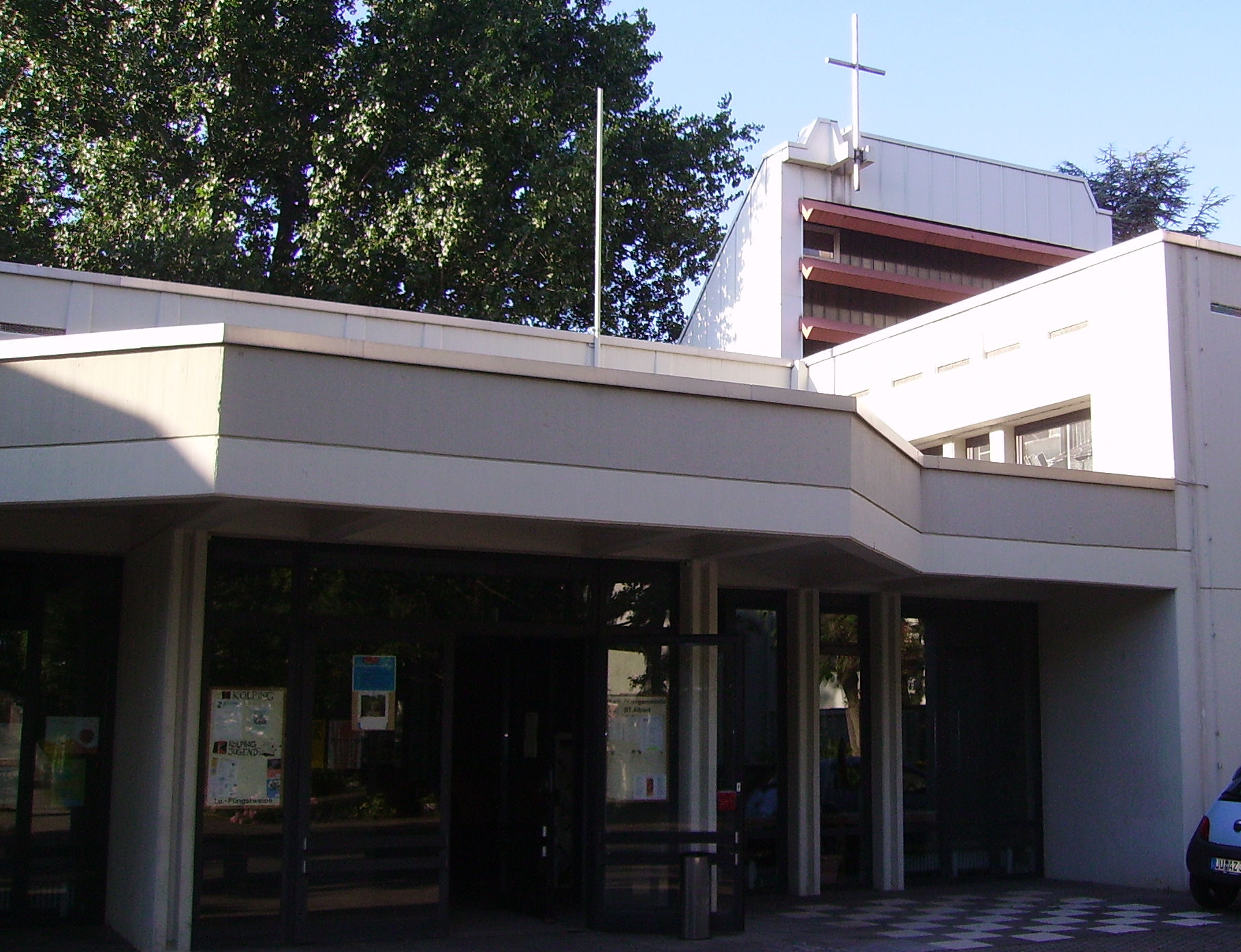 Ludwigshafen-Pfingstweide, Germany